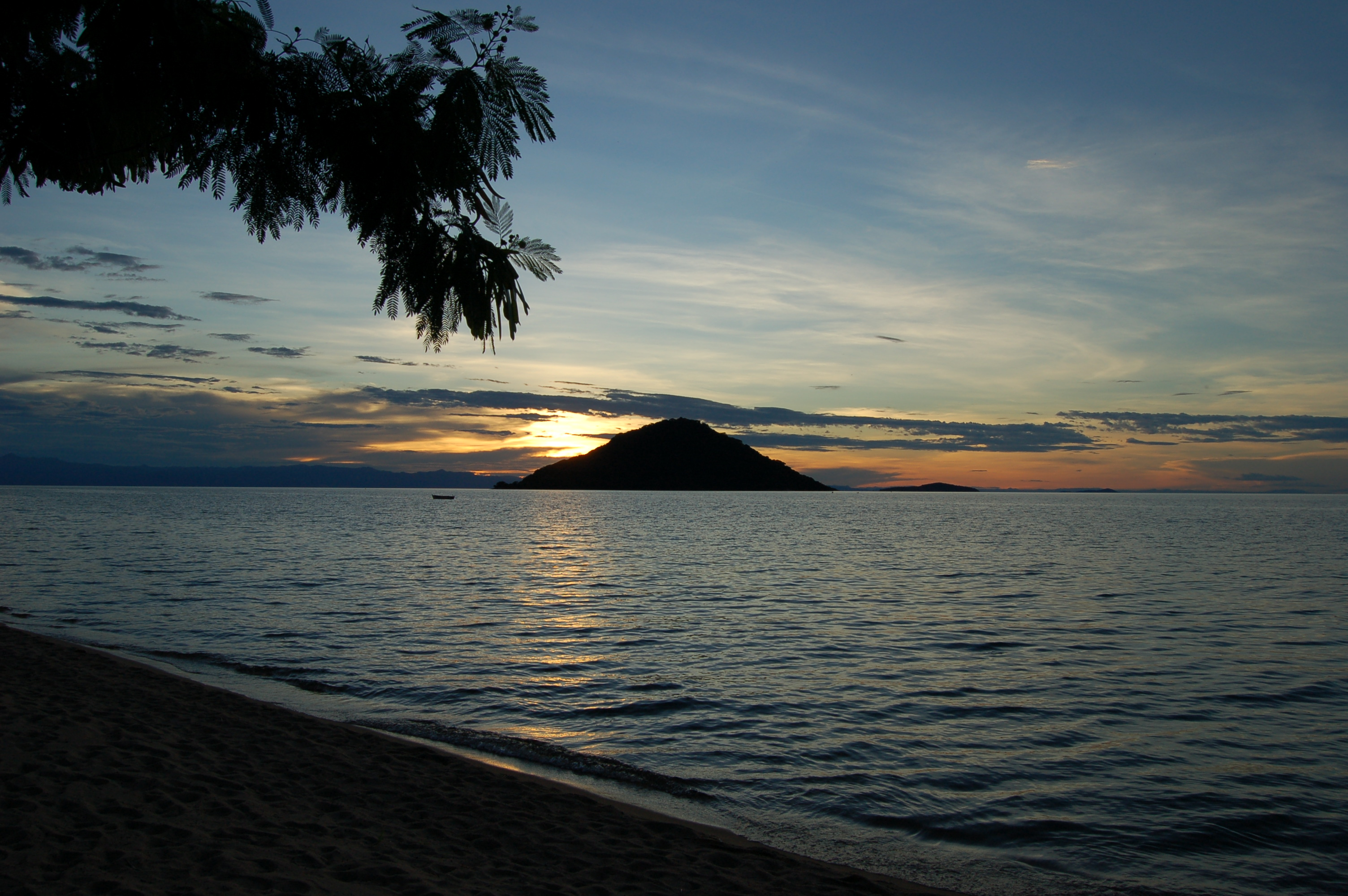 Sunset at Cape McLear, Malawi